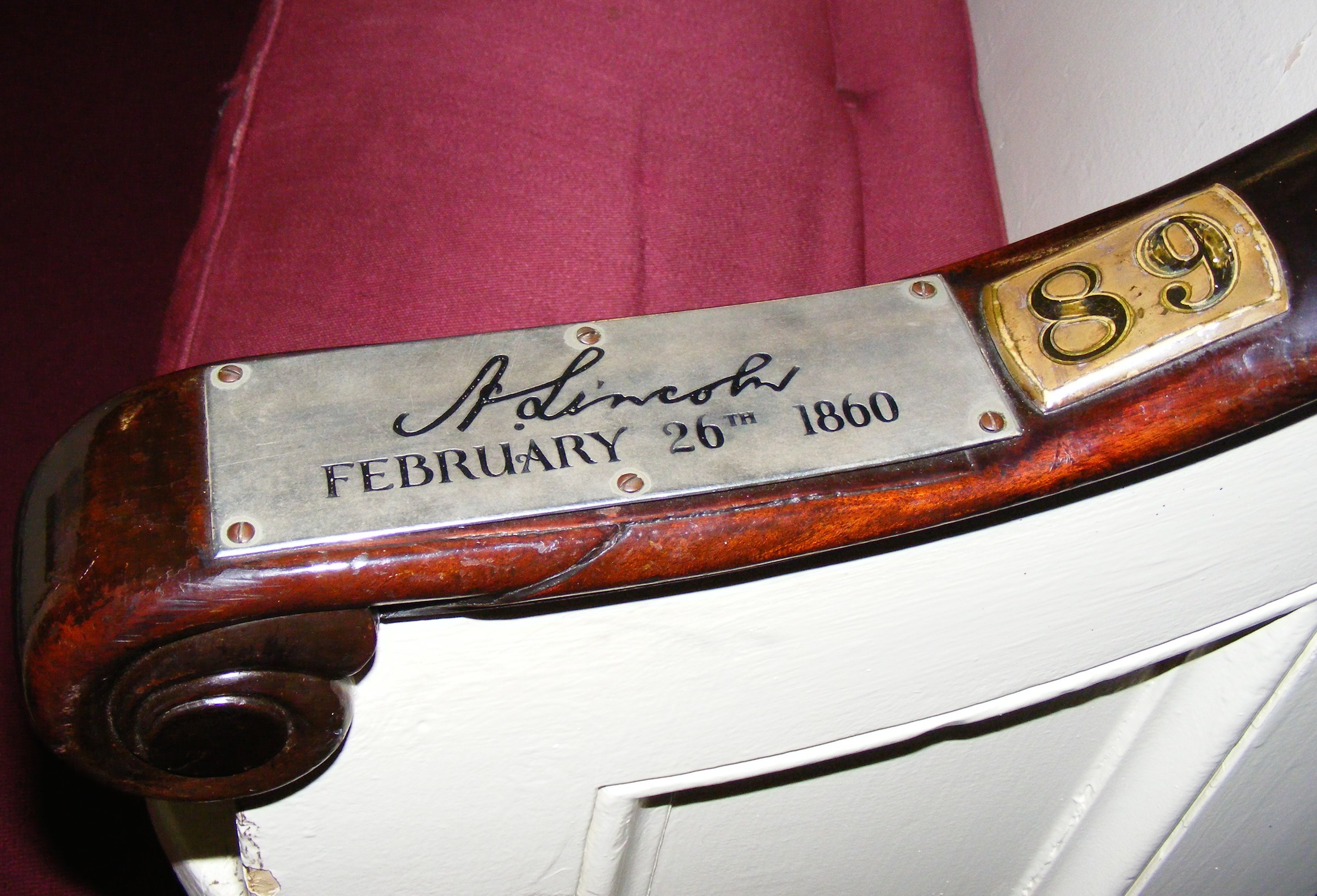 Pew in which Abraham Lincoln attended Sunday service at Plymouth Church, February 26, 1860.